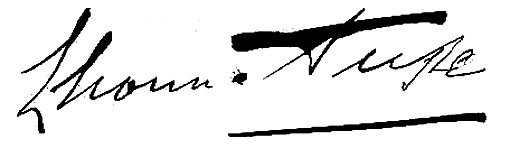 Signature Eleonora Duse (1858–1924)